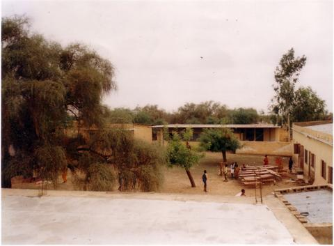 School of Agnam-Goly, Senegal